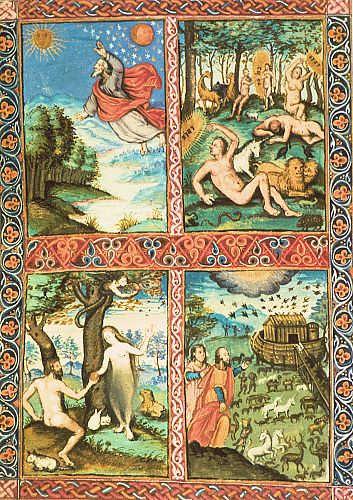 Bible, Ilov, 1619, artist Ghazar Baberdts'i, Genesis: Creation, Adam and Eve, Noah's Ark (Erevan, Matenadaran, MS 351)